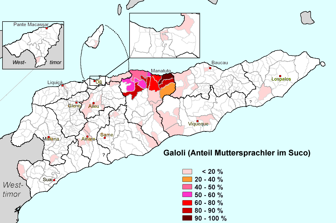 Percentage of people using Galoli as mother tongue in sucos of East Timor (Timor-Leste), according census 2010